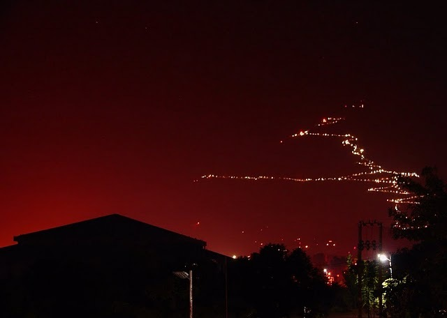 SMVD shrine from SMVDU